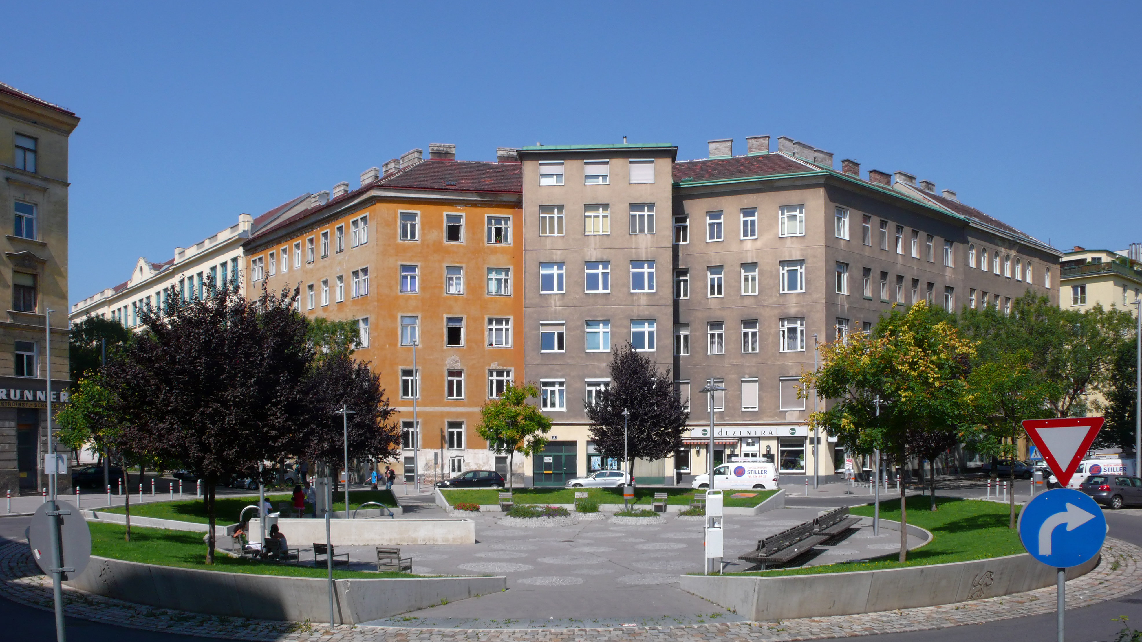 Vienna 2, Ilgplatz 8